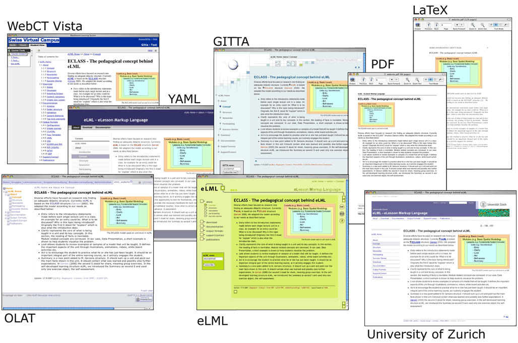 Different eLML (eLesson Markup Language) output options